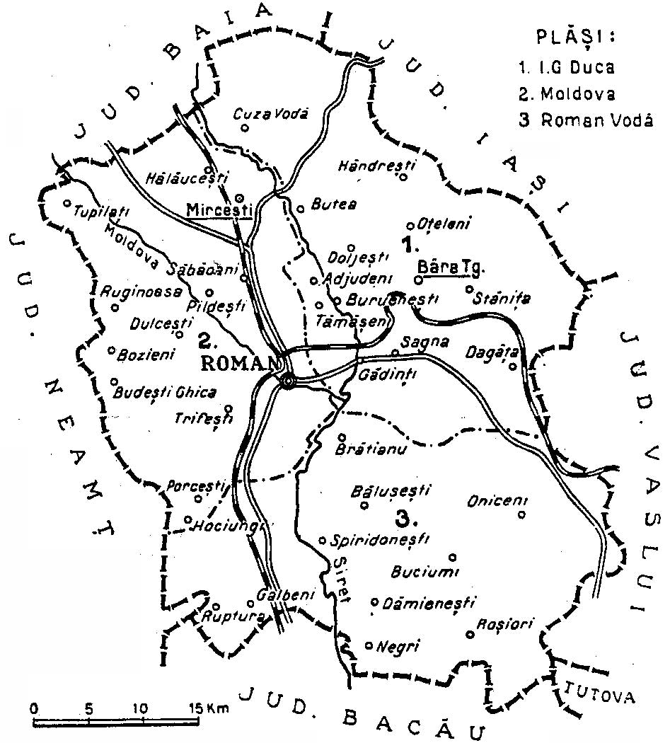 Map of Roman interwar county, Kingdom of Romania (1938).